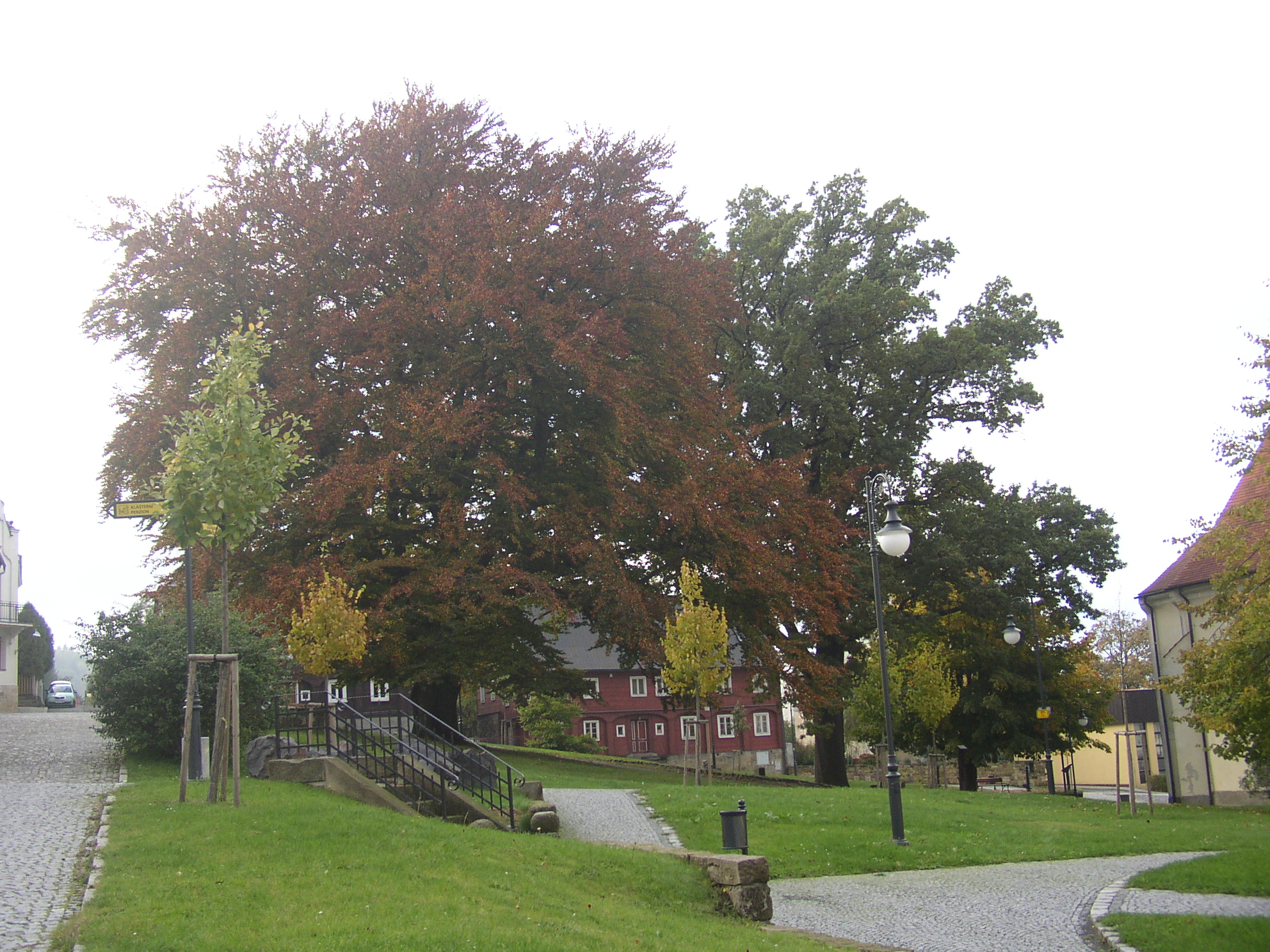 Dub a buk v Jiřetíně pod Jedlovou